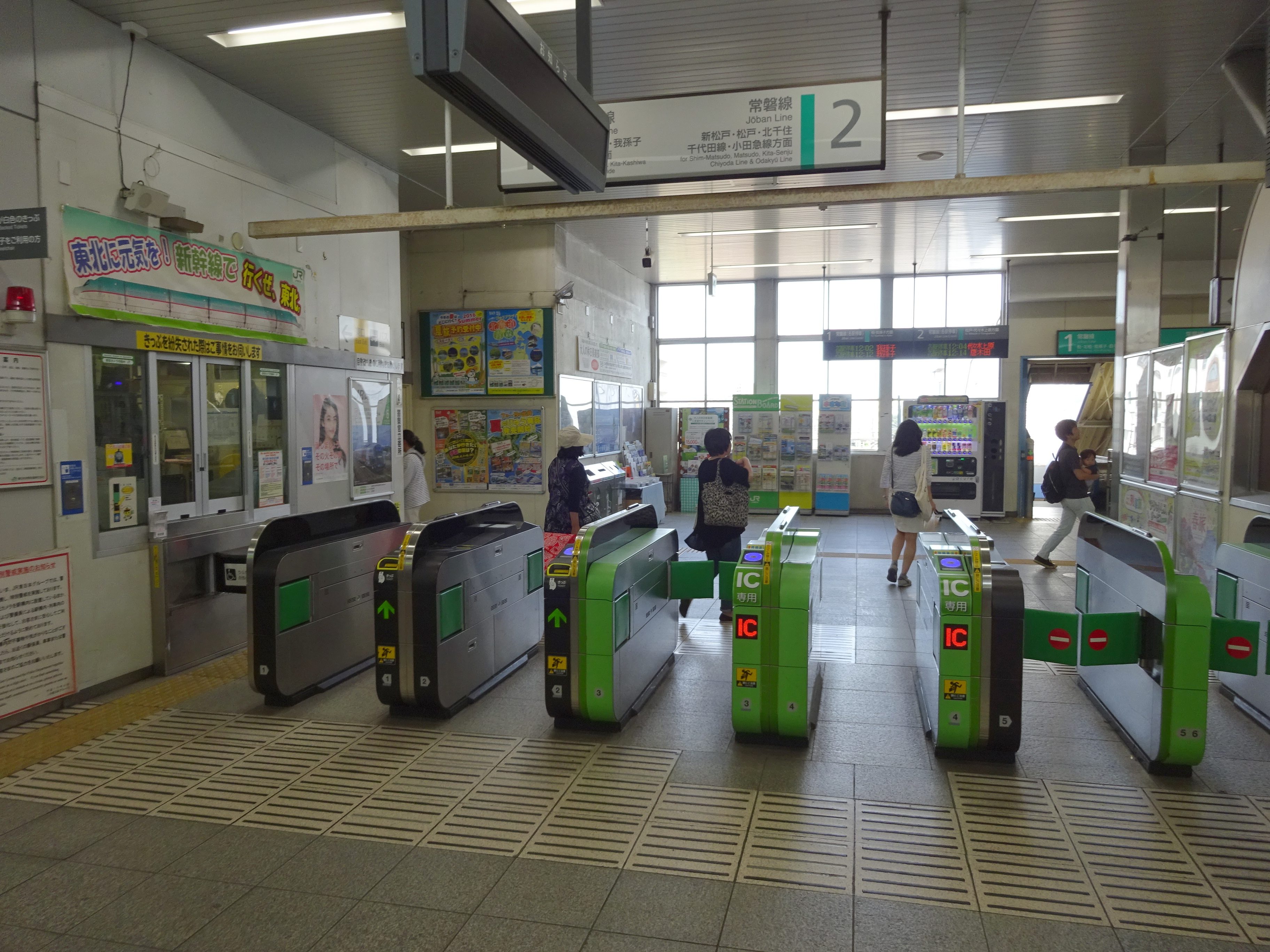 Ticket barriers of Minami-Kashiwa Station